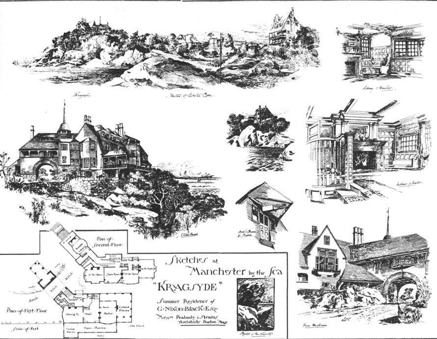 "Sketches at Manchester by the Sea – Kragsyde." Plate from The American Architect and Building News, March 7, 1885.